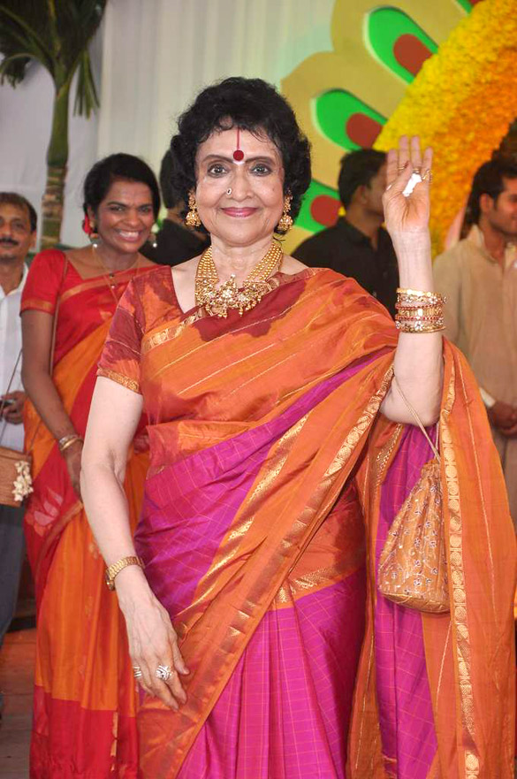 Vyjayantimala at Esha Deol's wedding at ISCKON temple